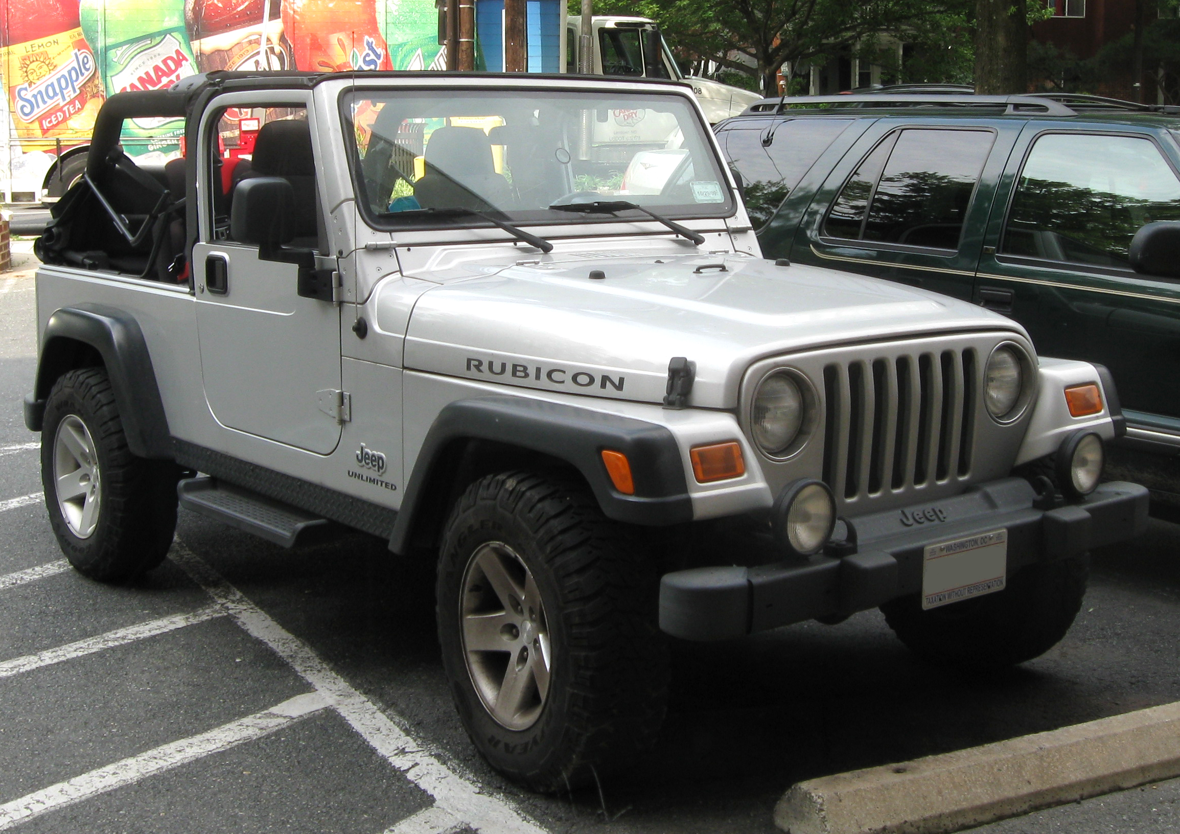 2004-2006 Jeep Wrangler photographed in Washington, D.C., USA.